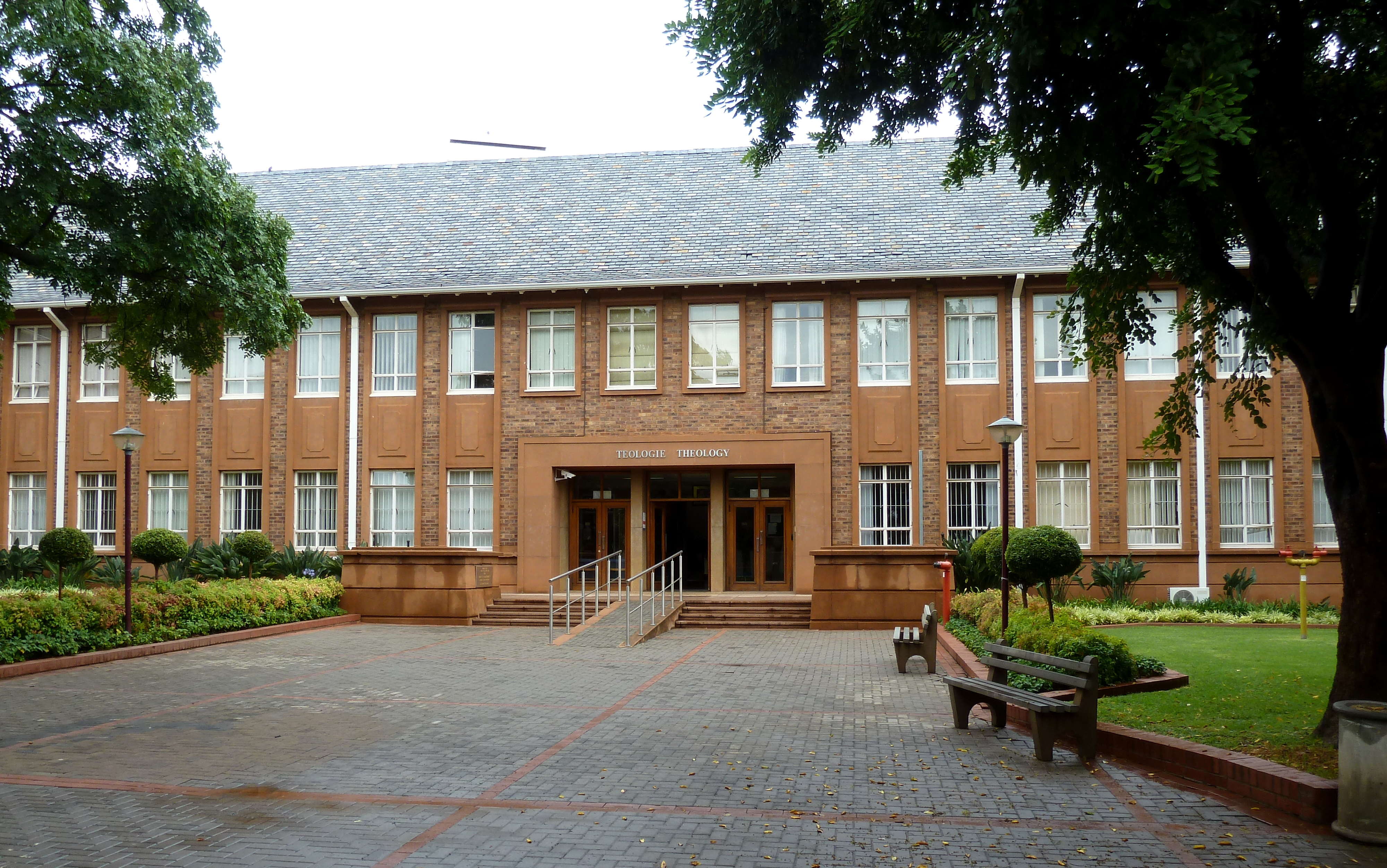 Theology faculty entrance at the University of Pretoria